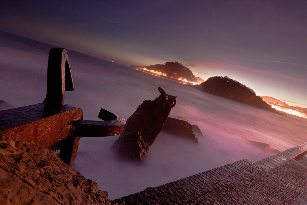 Wind comb